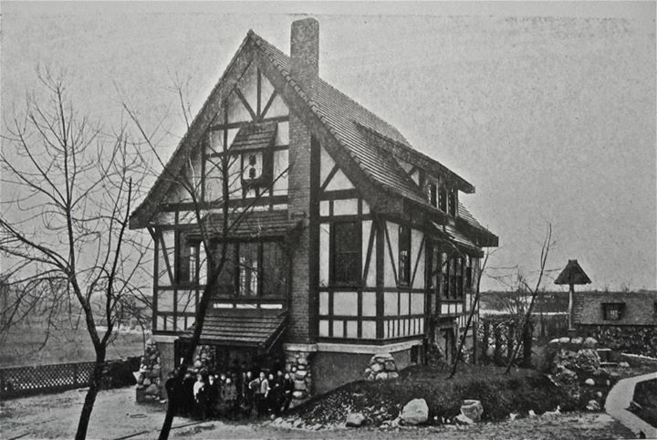 The Old Gym at St. John School for the Deaf in St. Francis, Wisconsin, United States.